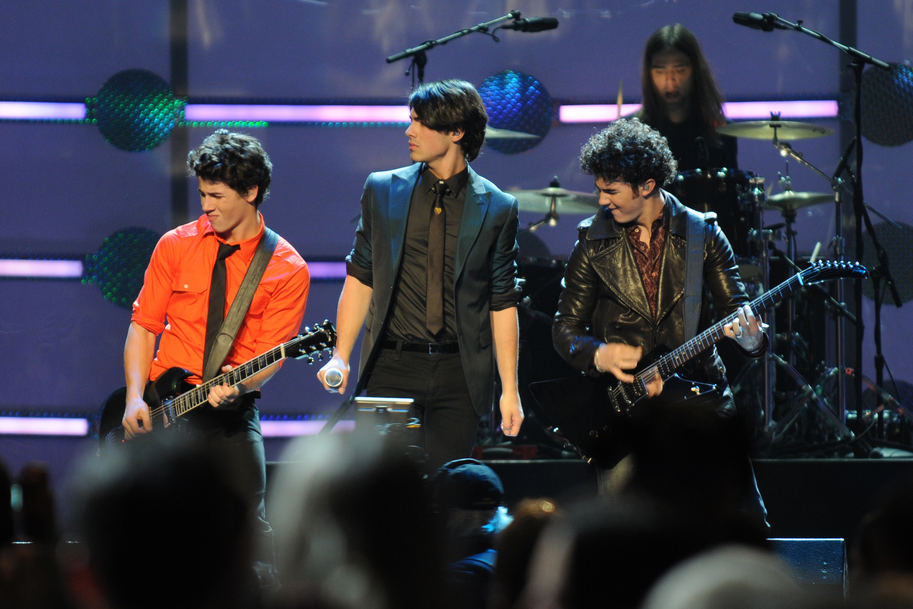 The Jonas Brothers perform at the "Kids Inaugural: We Are the Future" concert at the Verizon Center in downtown Washington, D.C., Jan. 19, 2009.